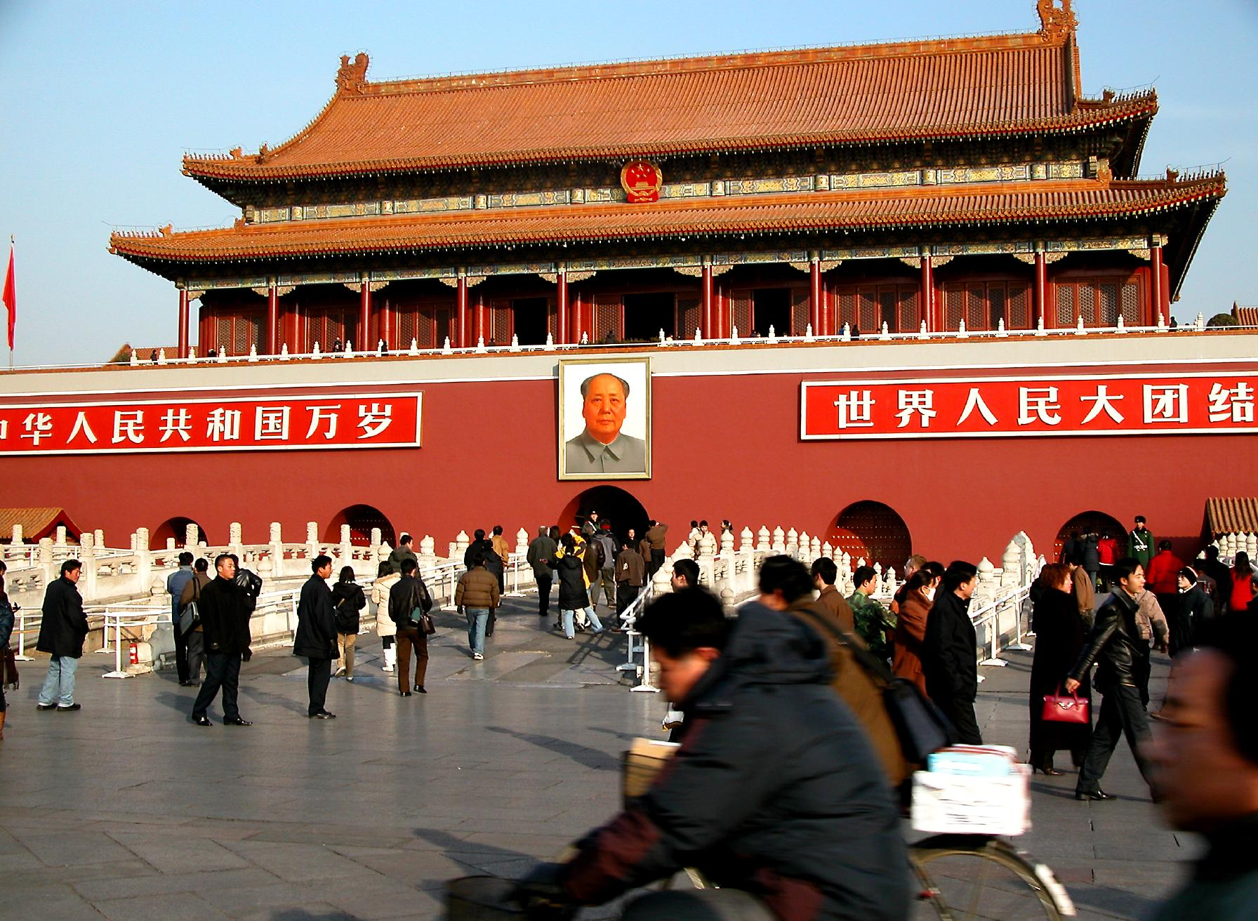 Cyclists heading to the office, westbound in front of the Forbidden City, Beijing. The slogans on Tiananmen ("Long live the People's Republic of China" and "Long live the unity of the people of the world") are written in Simplified Chinese from left to right.